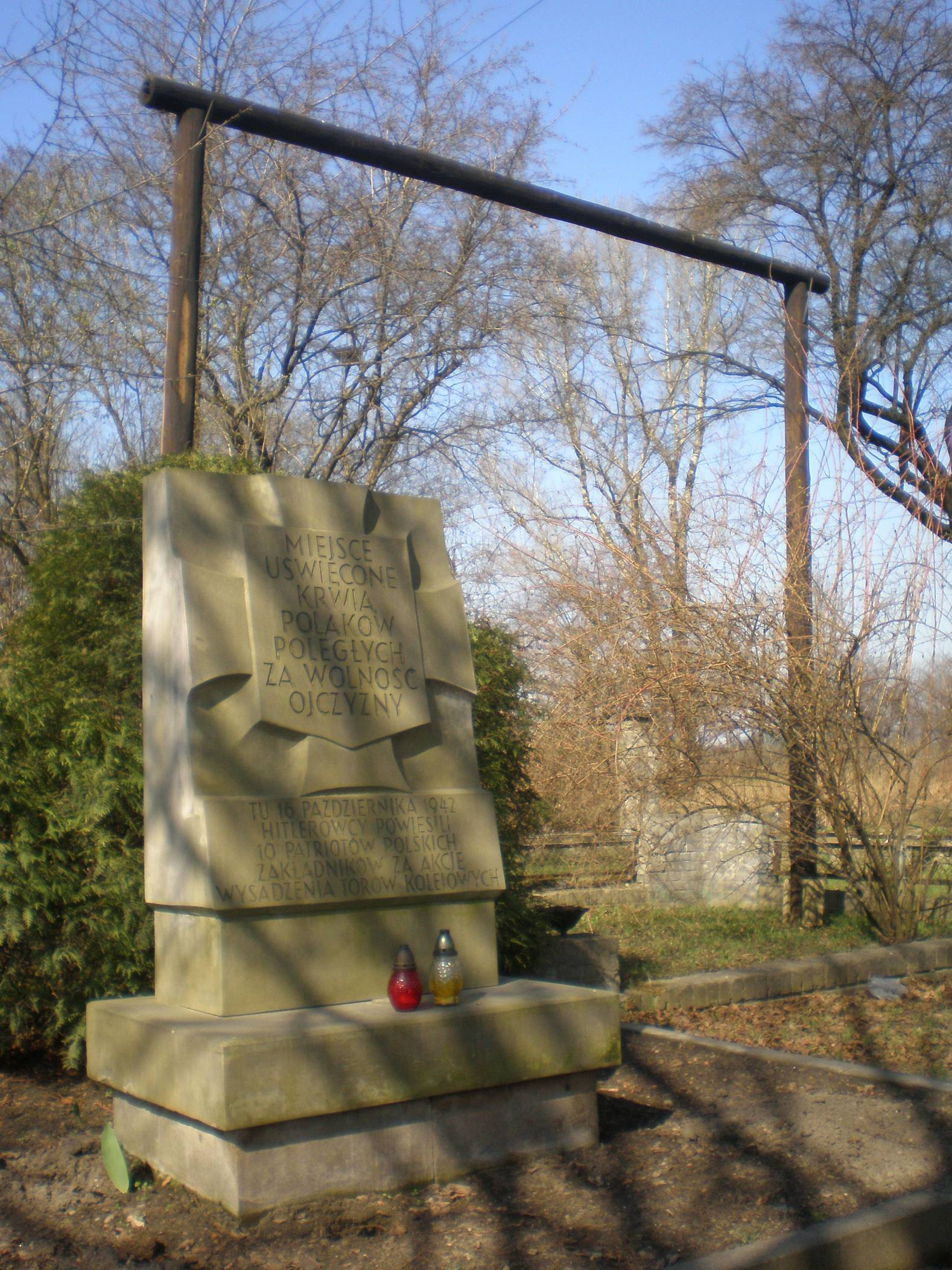 Plaque at Mszczonowska street in Warsaw commemorating a 10 Poles which were hanged there by Nazi Germans (16 October 1942). Behind the plague is located the authentic gallows from the period of the German occupation.